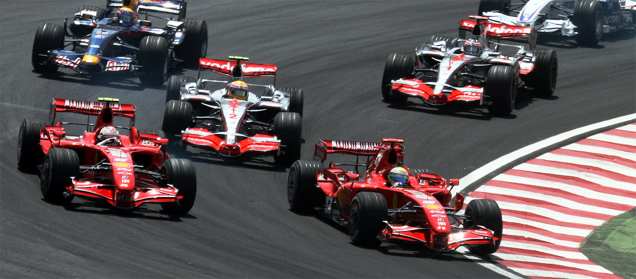 Formula One 2007 Rd.17 Brazilian GP: Start of the race at the S do Senna. #5 Felipe Massa (Ferrari), #6 Kimi Räikkönen (Ferrari), #2 Lewis Hamilton (McLaren) and #1 Fernando Alonso (McLaren)